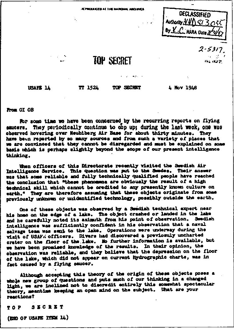 Top Secret USAF Europe document about extraterrestrial opinion for origins of flying saucers Contents 1 Licensing 2 History of Image:1948 Top Secret USAF UFO extraterrestrial document.gif 3 Licensing 4 Original upload log Licensing History of Image:1948 Top Secret USAF UFO extraterrestrial document.gif 2008-07-18T05:06:10Z Remember the dot (Talk